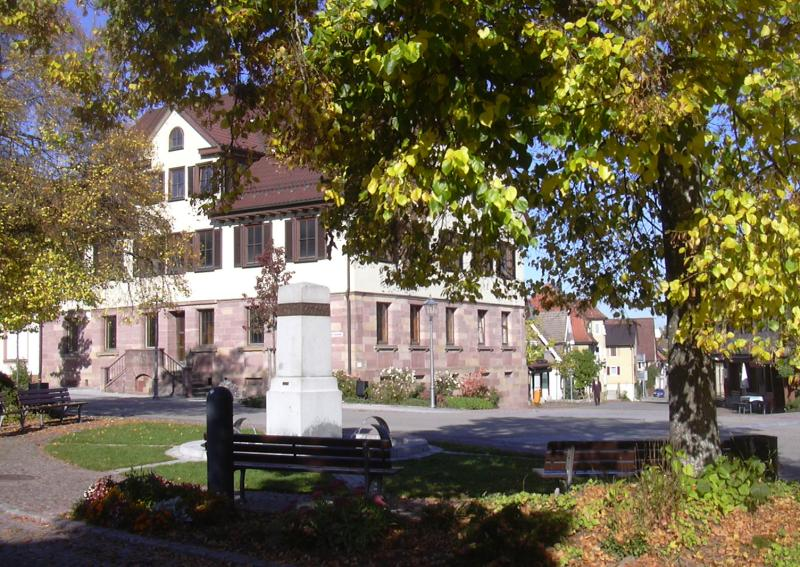 Town hall of Dornhan, Germany